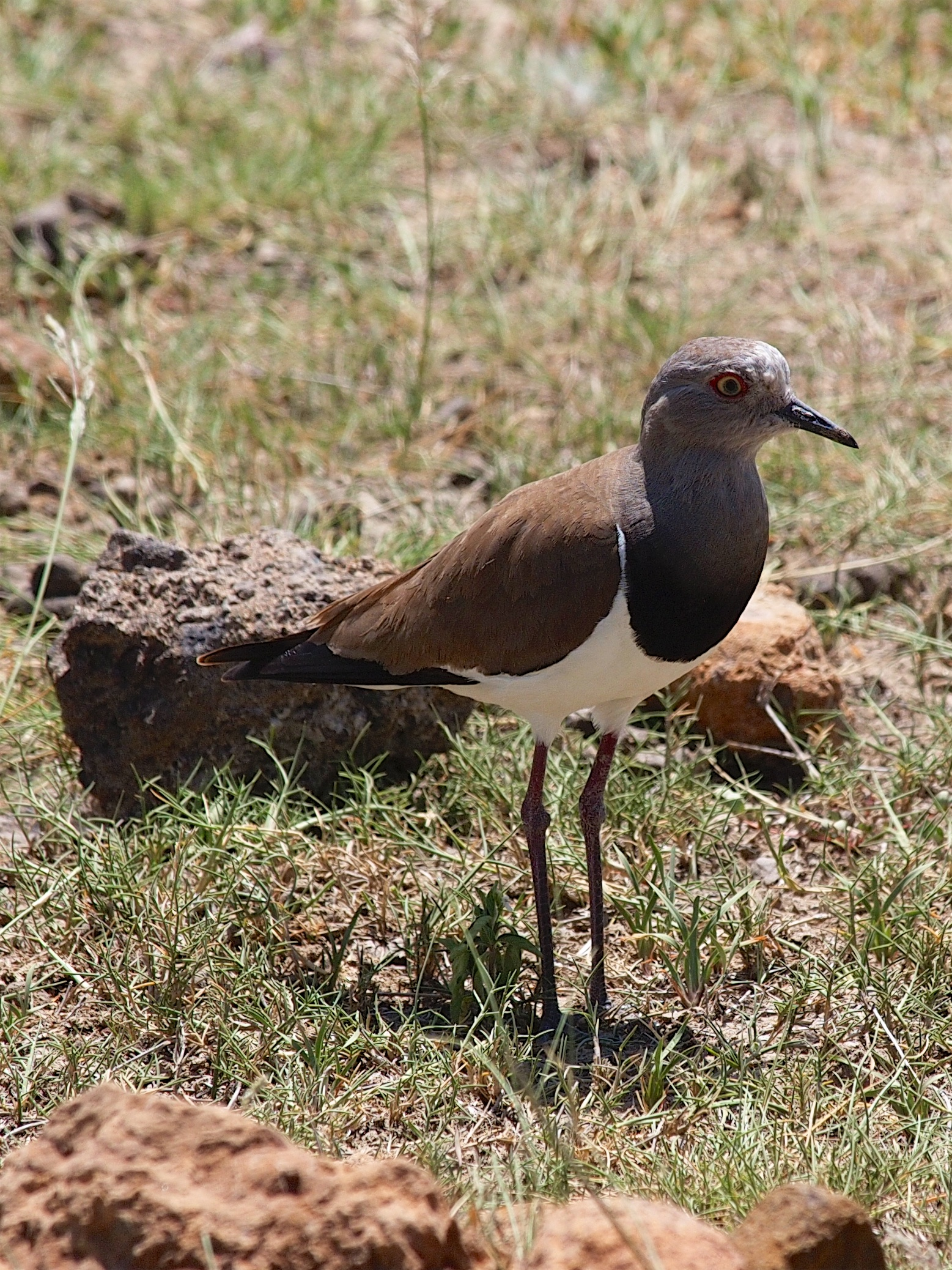 Black-winged Lapwing Vanellus melanopterus, Ngorongoro (2015)